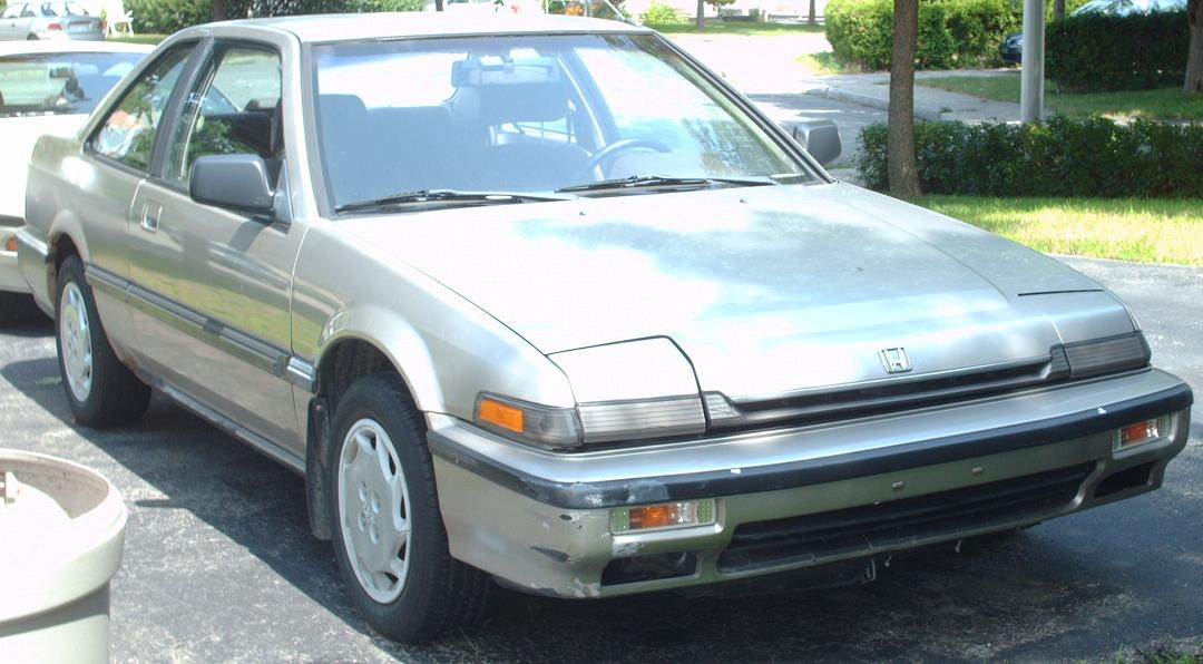 1989 Honda Accord photographed in Montreal, Quebec, Canada.